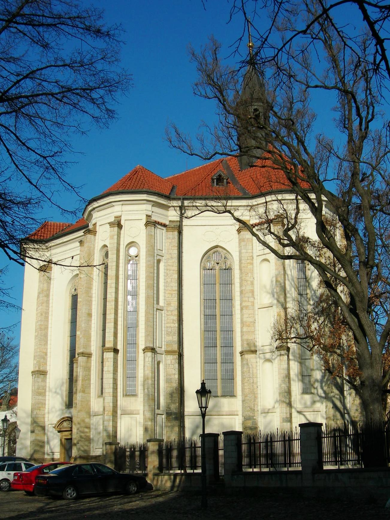 Prague castle, St Rochus church in Strahov